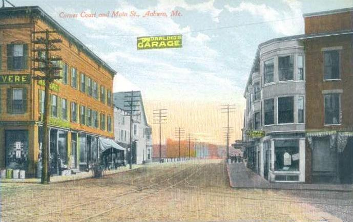 Corner of Court and Main streets, Auburn, ME; from a c. 1908 postcard.